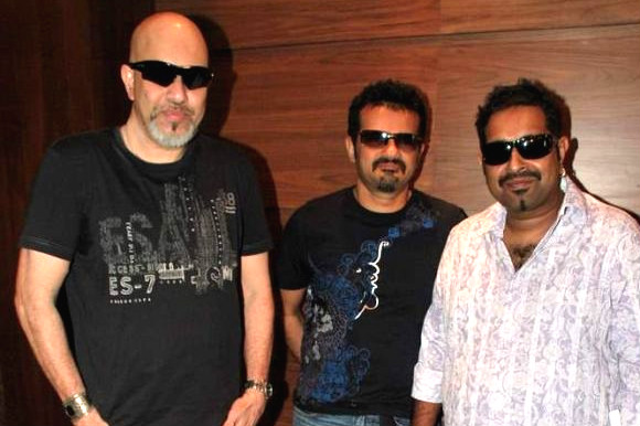 Shankar-Ehsaan-Loy at Inspiration world tour press meet